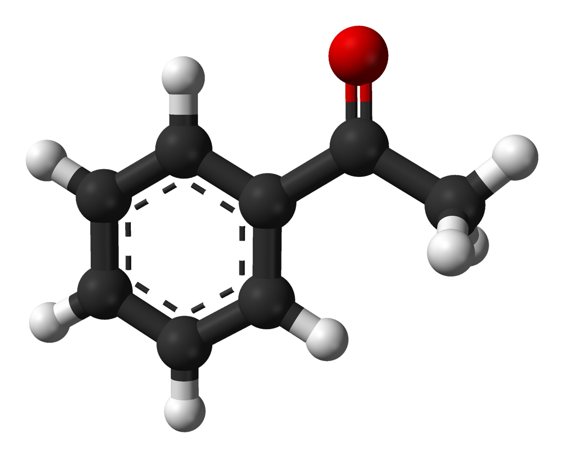 Ball-and-stick model of the acetophenone molecule, PhCOMe, C8H8O, from the crystal structure. X-ray crystallographic data from Acta Cryst. (1973). B29, 1822-1826. Model constructed in CrystalMaker 8.1. Image generated in Accelrys DS Visualizer.